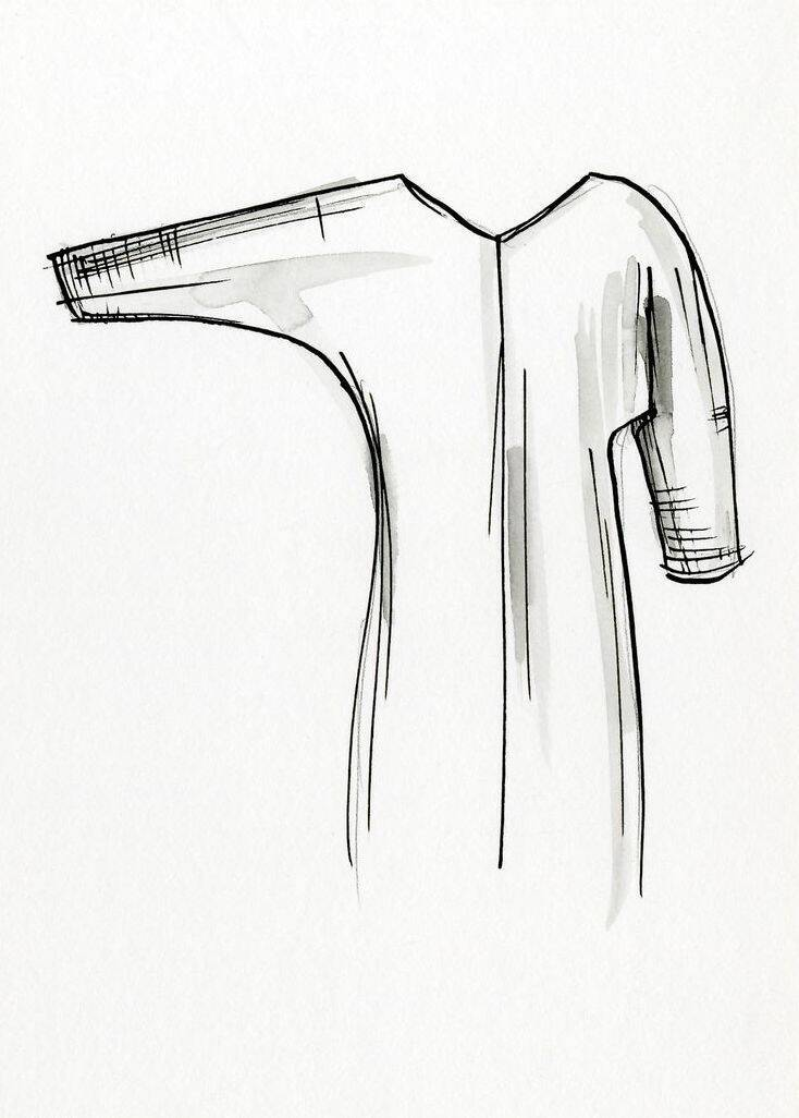 Drawing of the Thesaurus concept : 'batwing sleeve'